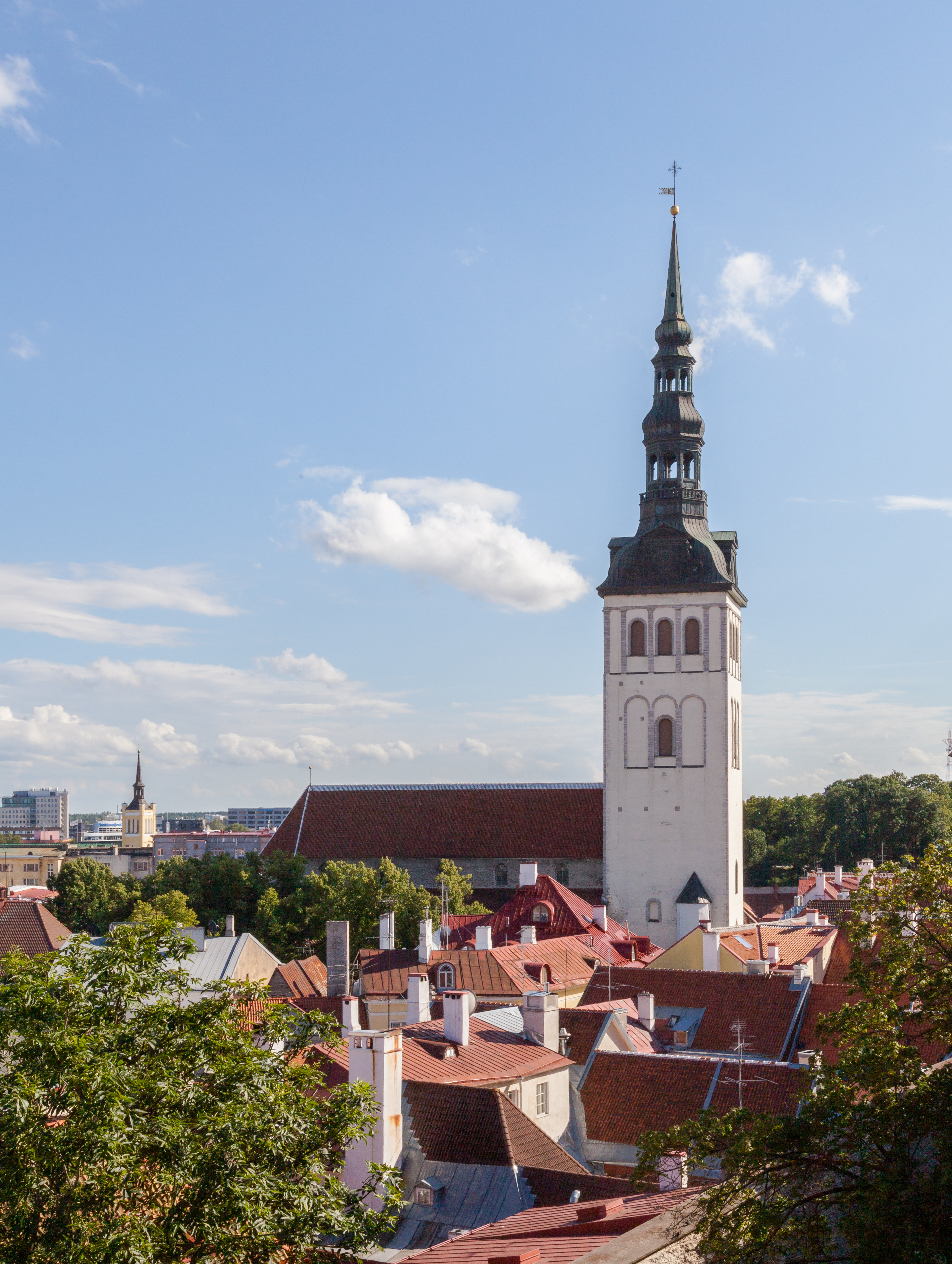 St. Nicholas' Church, view of Tallinn from Toompea, Estonia